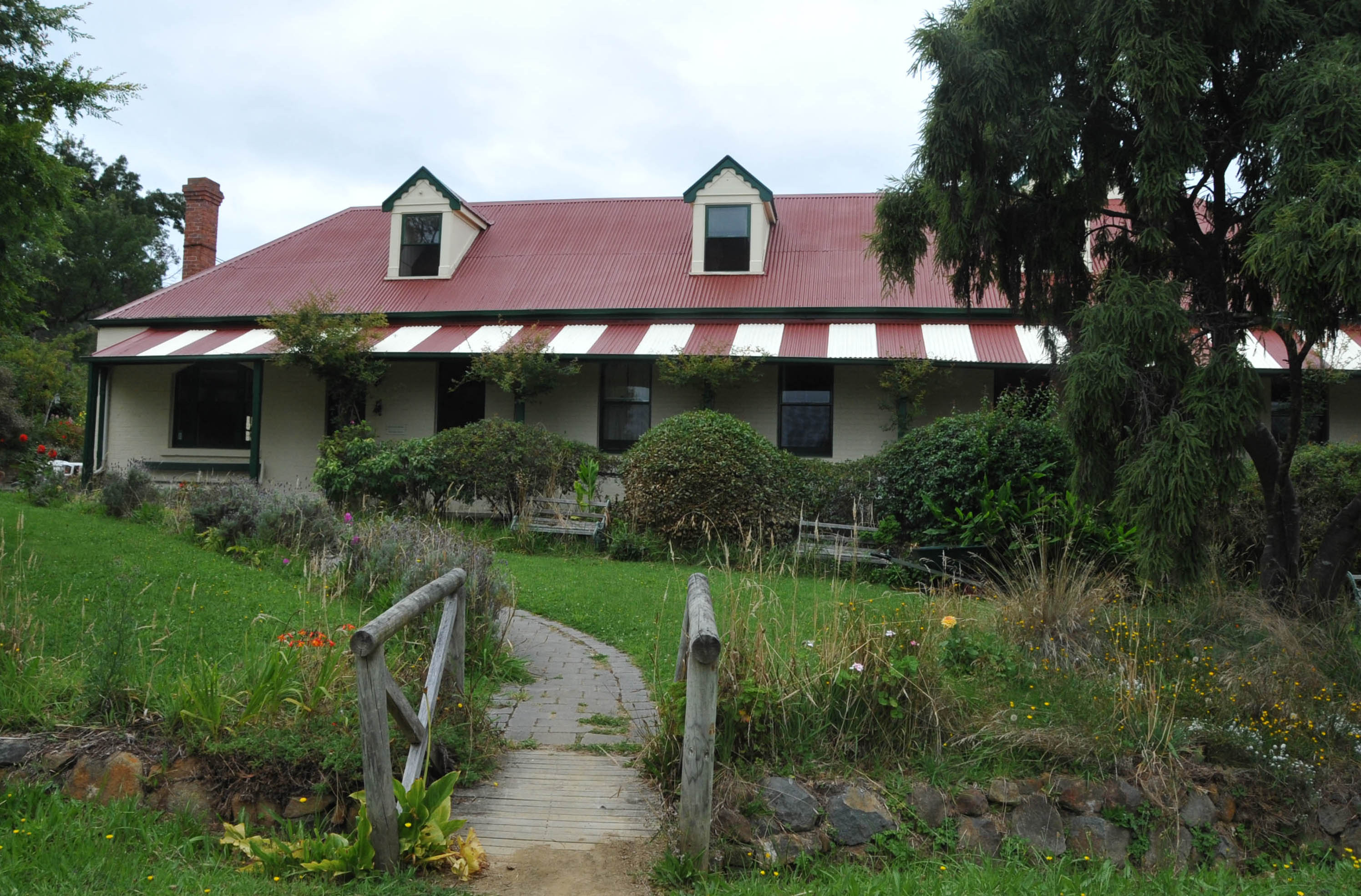 CASCADES - USED BY OFFICERS TO WATCH OVER CONVICTS THAT WERE WORKING IN THE AREA – NOW A BED & BREAKFAST. SEE "KOONYA, TASMANIA" IN WIKIPEDIA